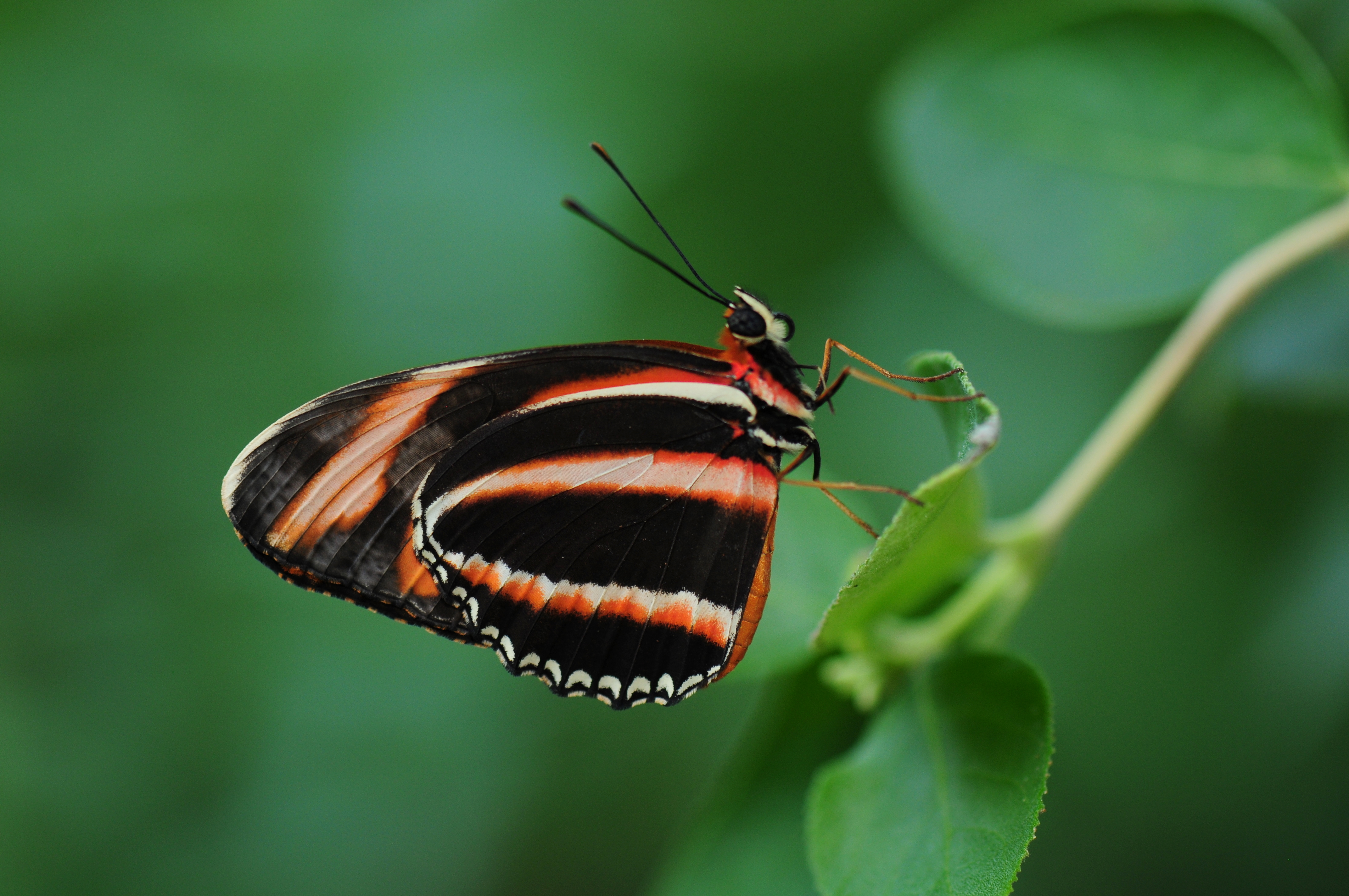 Also known as the Banded Orange Heliconian or Orange Tiger